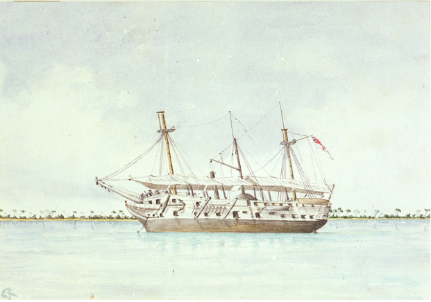 H.M.S. Vindictive